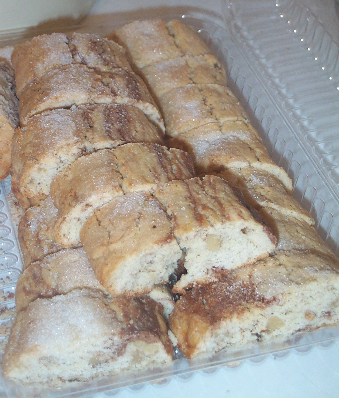 Sliced loaf of mandelbrot. Photo courtesy of Stu Spivack